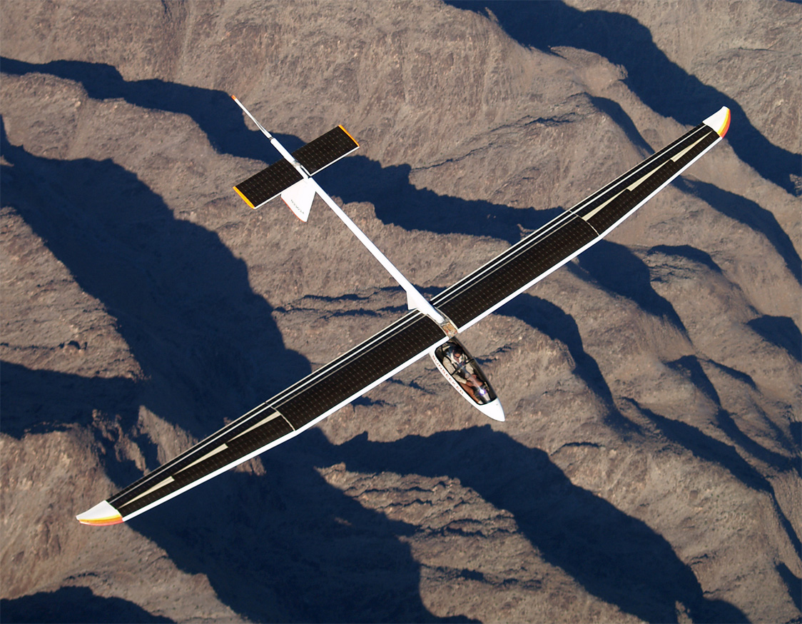 Solar Flight's Sunseeker II flying over Southern California's high desert